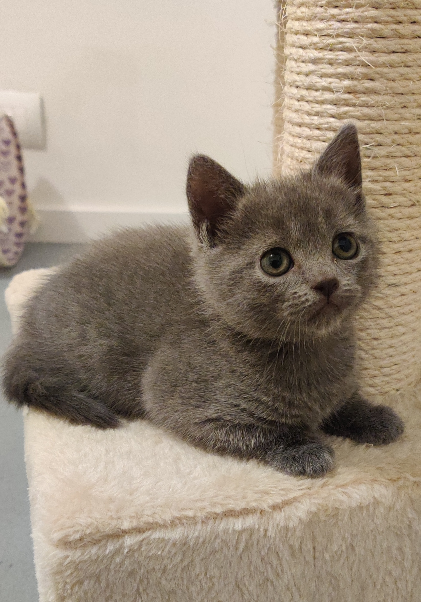 Chartreux Cat, Kitten 1 months old.